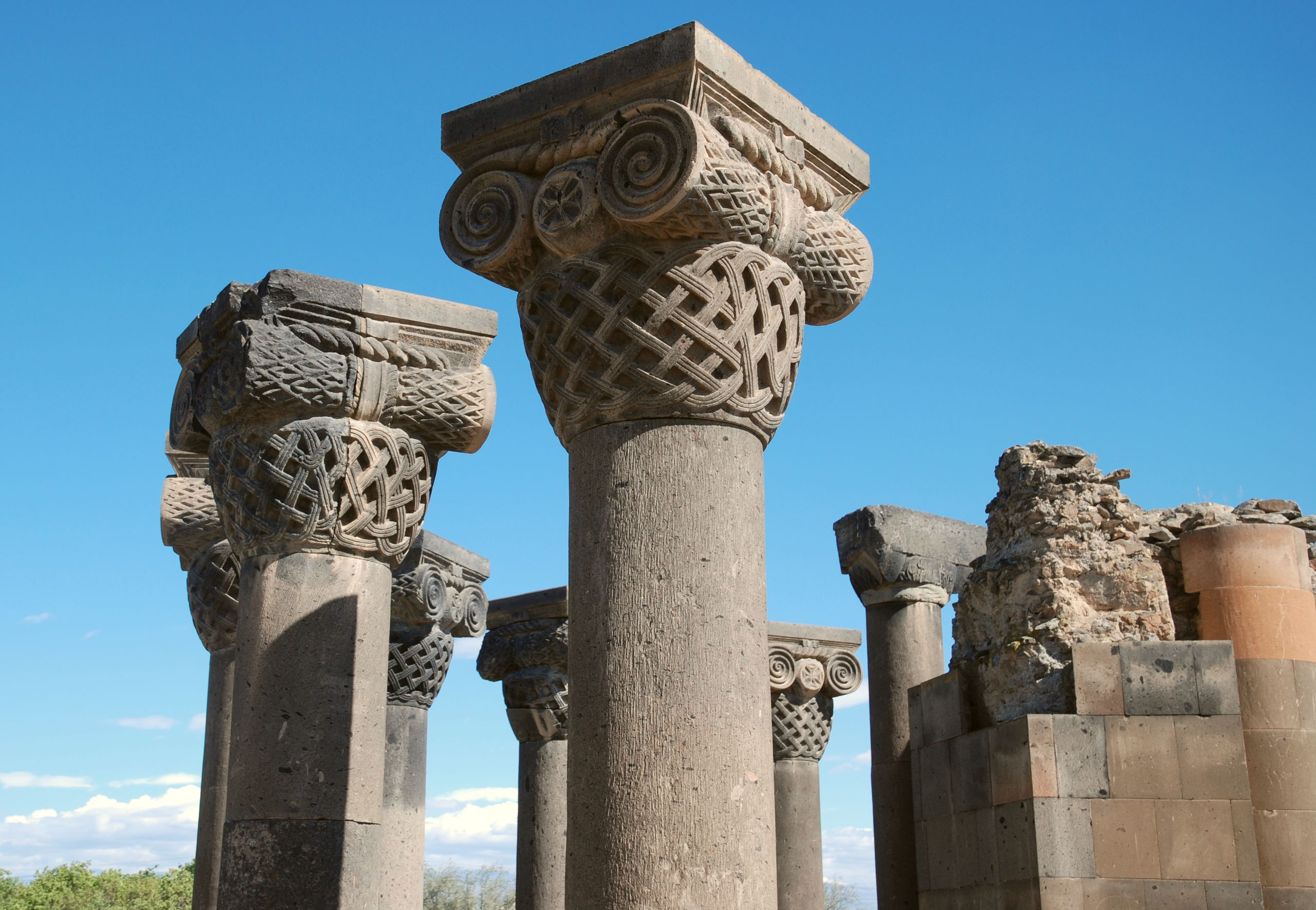 Zvartnots, exedra south